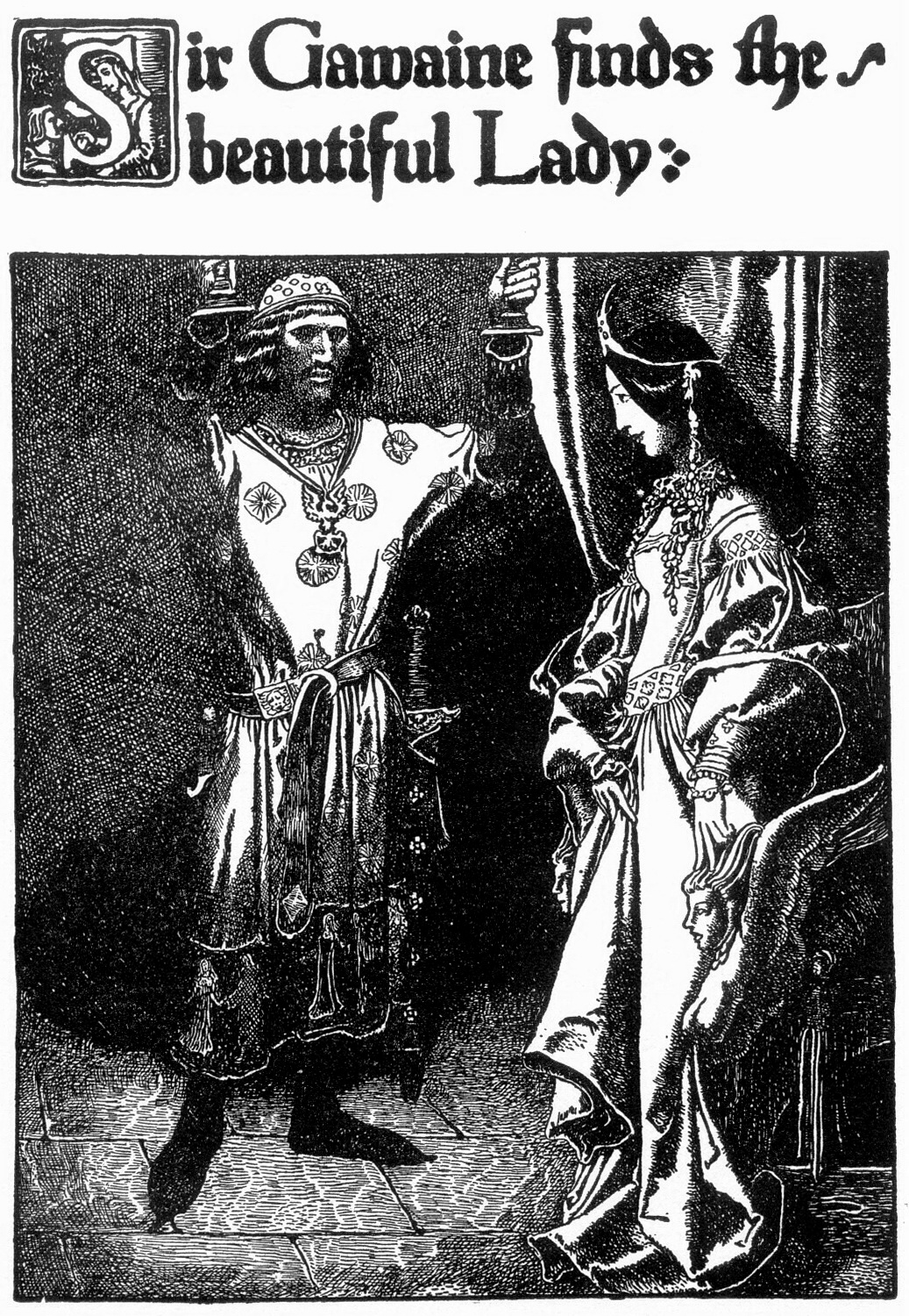 Howard Pyle illustration from the 1903 edition of The Story of King Arthur and His Knights scanned and archived at where it was marked as Public Domain.